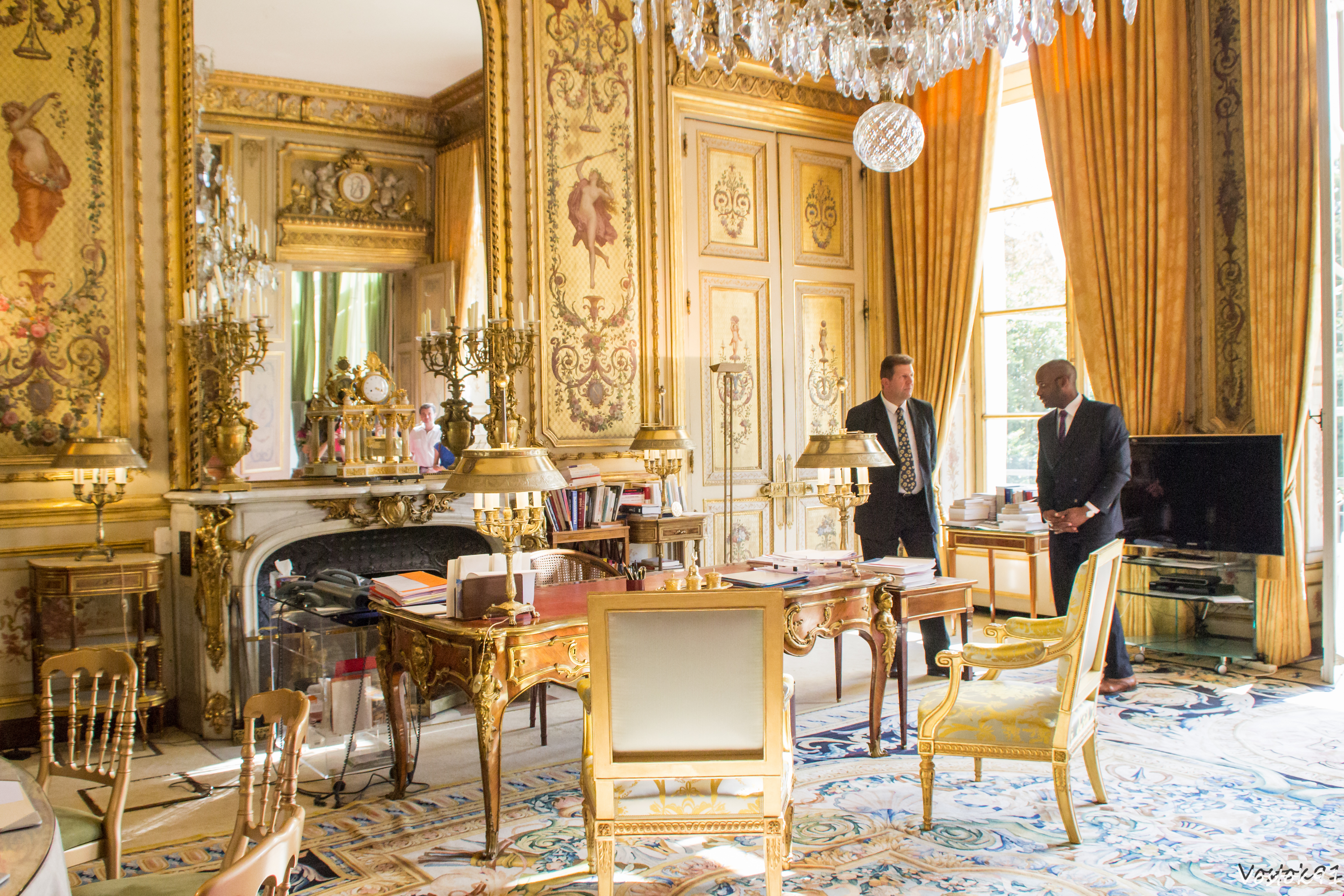 Palais de l'Élysée, Paris. European Heritage Days 2014.